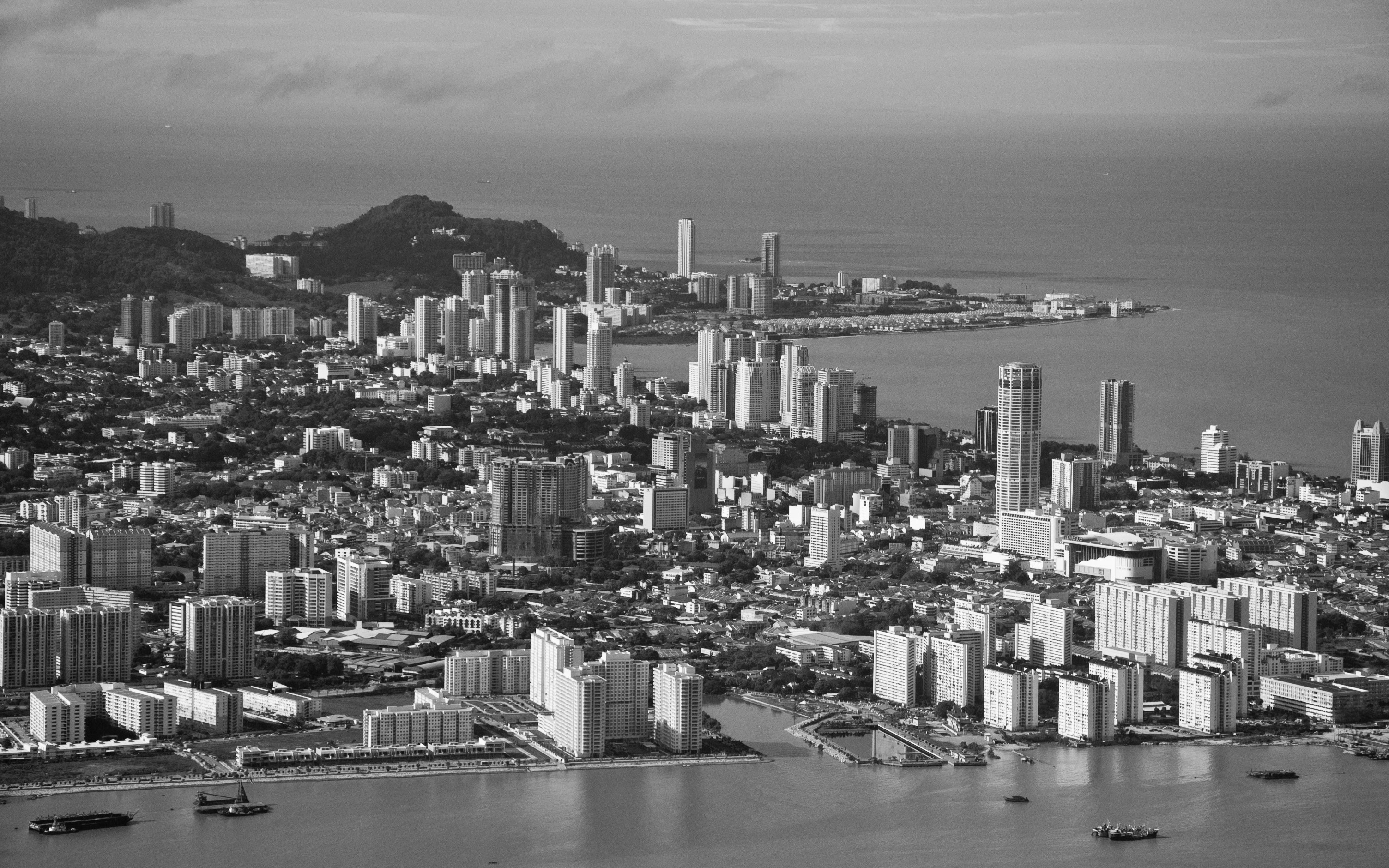 View over the north of the island of Penang in Malaysia. In the foreground Georgetown, behind this Tanjung Bungah and Batu Ferringhi.